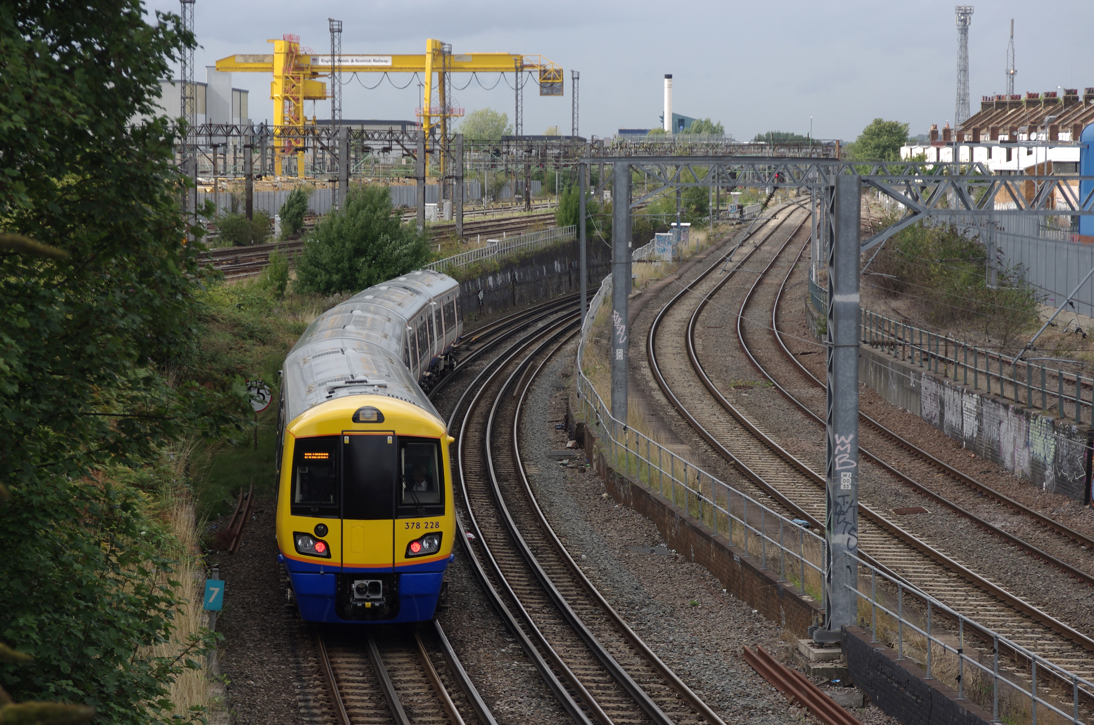 London Overground Capitalstar EMU 378228 departs Willesden Junction with a service to Watford Junction from London Euston.